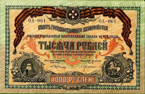 Money of general Denikin, made in Krimea in 1919.